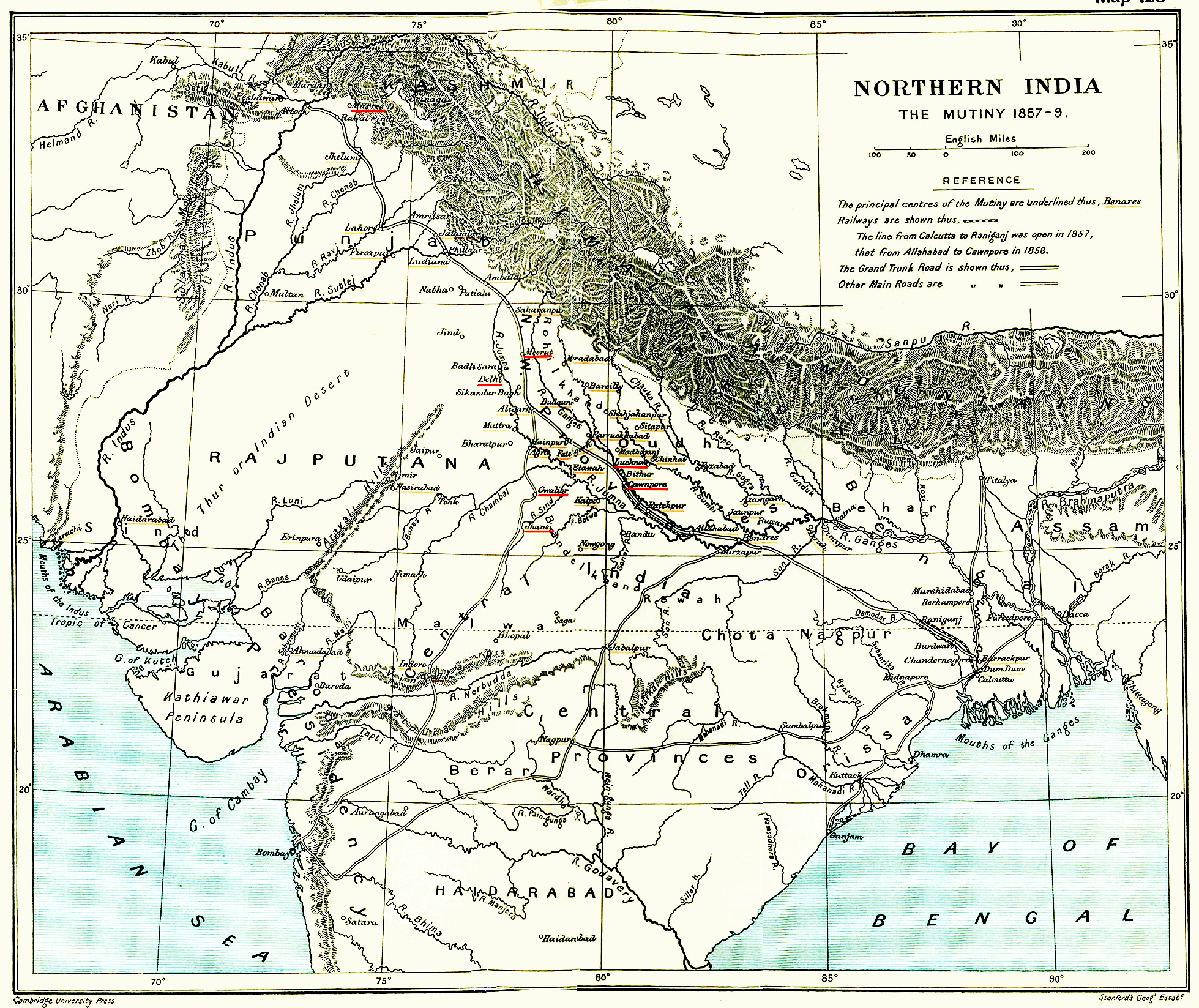 Map, "North India: The Mutiny 1857-9" from "The Cambridge Modern History Atlas". Cambridge University Press; London. 1912. Editors were Sir Adolphus William Ward (†1924), G.W. Prothero (†1922), and Sir Stanley Mordaunt Leathes (†1938). Individual authors of works making up the atlas are not identified, nor are the likely to be, after reasonable research.